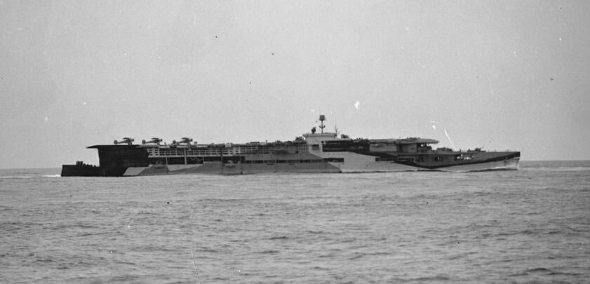 Distant view of Fairey Swordfish of No 825 Squadron Fleet Air Arm on board HMS Furious (47) wait to take off whilst she sails in northern waters.